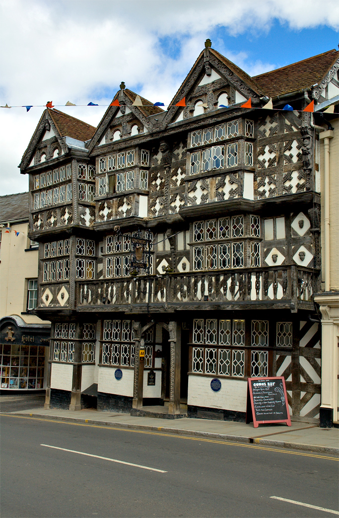 Photograph of the Feathers Hotel in Ludlow. Taken by myself in 2006. --Newton2 13:17, 1 June 2006 (UTC)